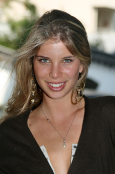 Miss Israel 2007 - Liran Kohener (at Miss World 2007, Sanya, China)